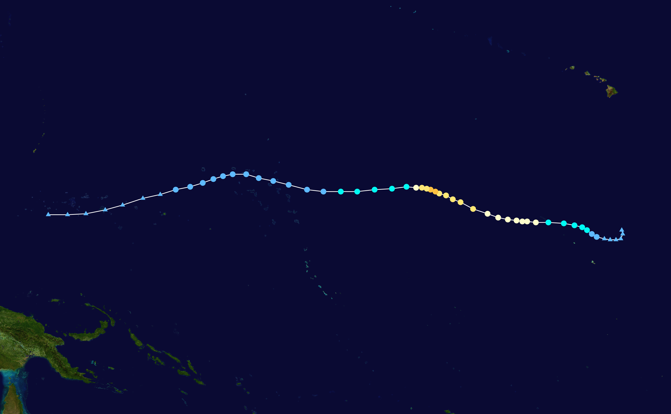 Hurricane Ekeka (1992) track. Uses the color scheme from the Saffir-Simpson Hurricane Scale.